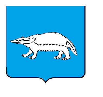 Heraldry of Tasso's family